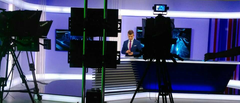 Nikola Vučić in the studio, before recording the show